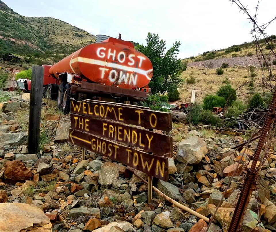 Gold King Mine Ghost Town in Jerome, Arizona